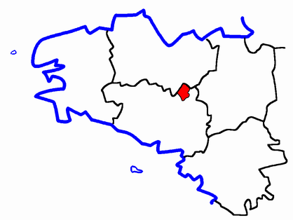 Description: Map for localisazion of cantons of Bretagne region in France Source: made by Hervé Tigier in april 2005 from another large map (published in 1990)